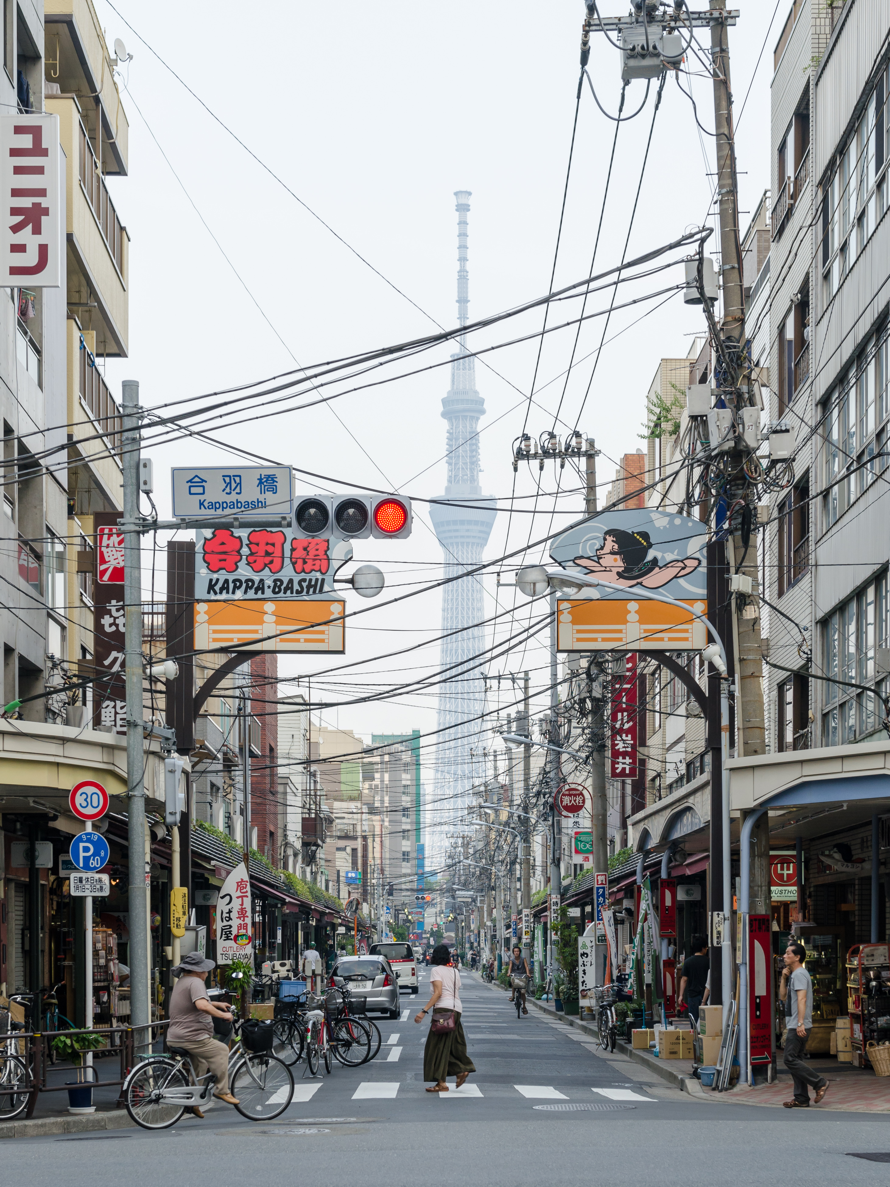 A photo of Kappabashi street as well as an adjacent street in Asakusa, Tokyo. The neighborhood is well-known for its stores, which sell kitchen items.